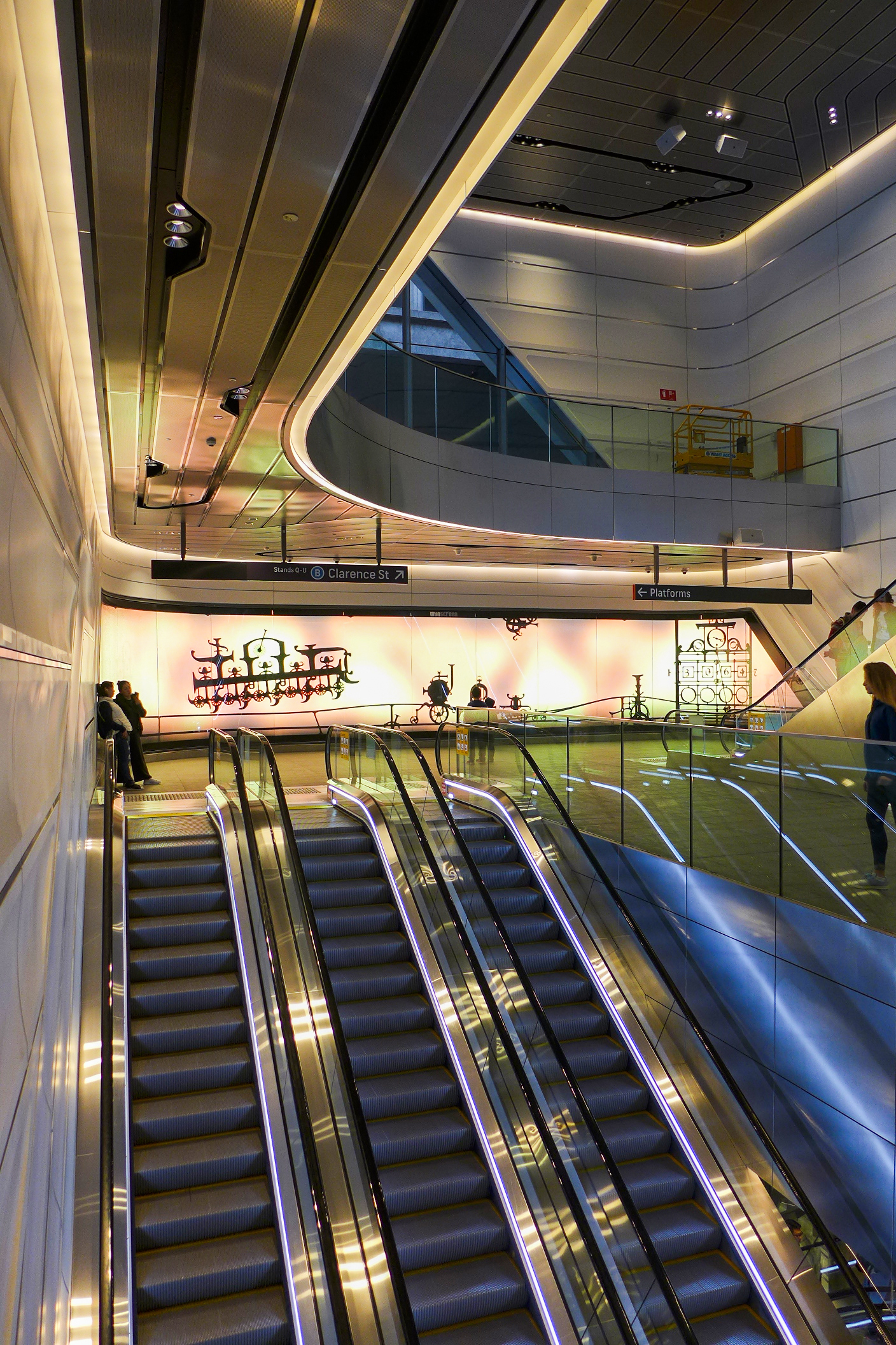 Wynyard Station to Barangaroo Access Atrium